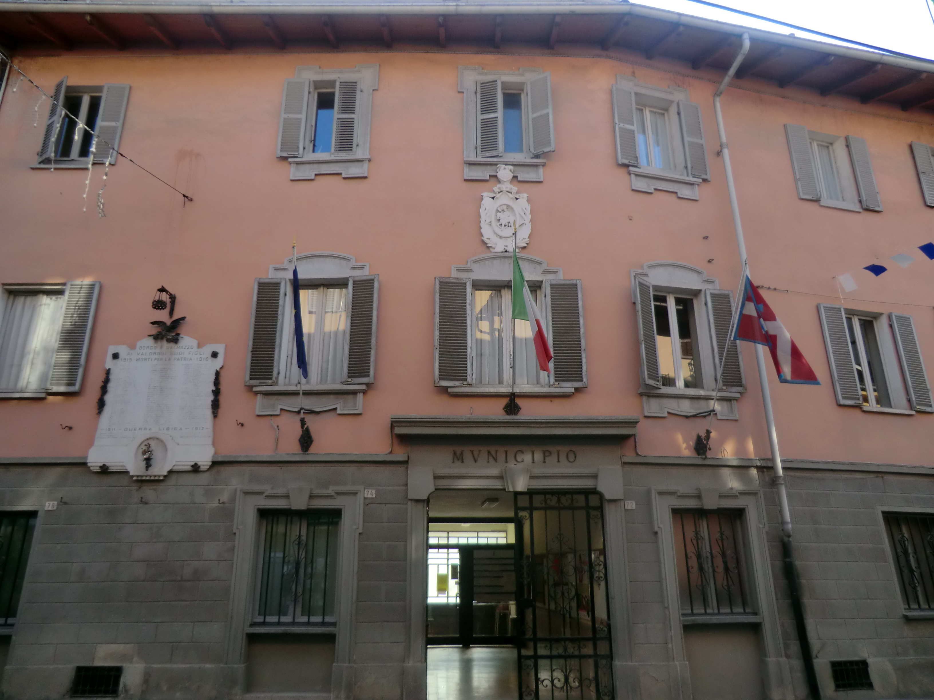 Borgo San Dalmazzo (Cuneo): city hall